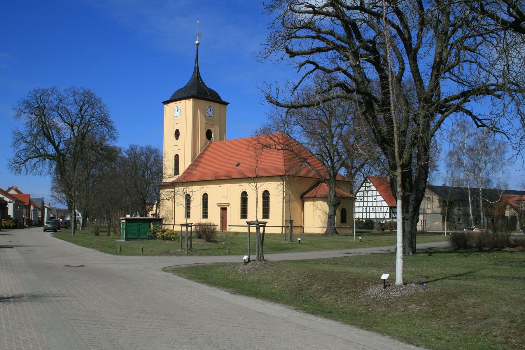 South-eastern view of church in Pausin, Schönwalde-Glien municipality, Havelland district, Brandenburg state, Germany